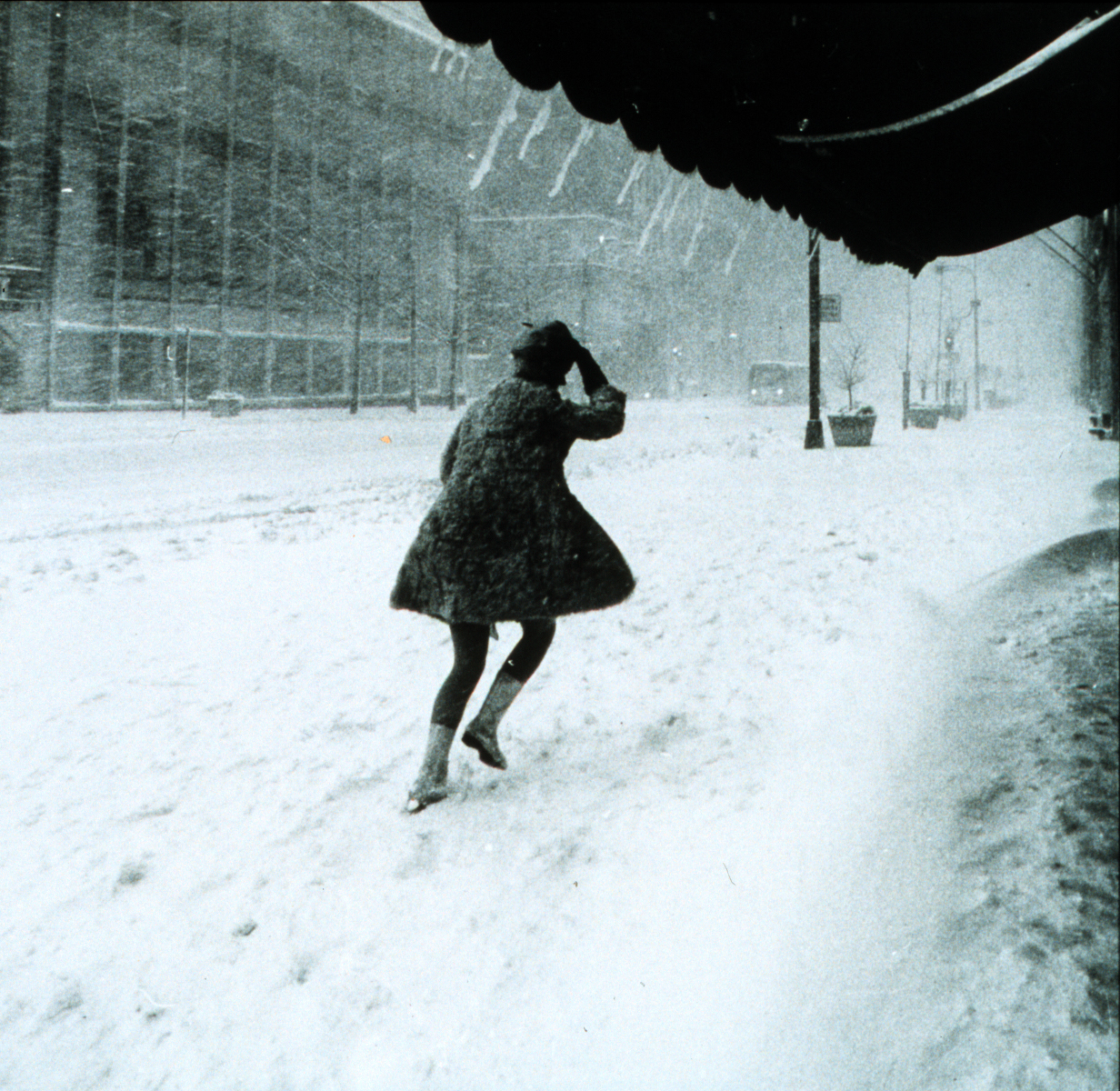 A resident struggles to walk in a blizzard in Manhattan, New York